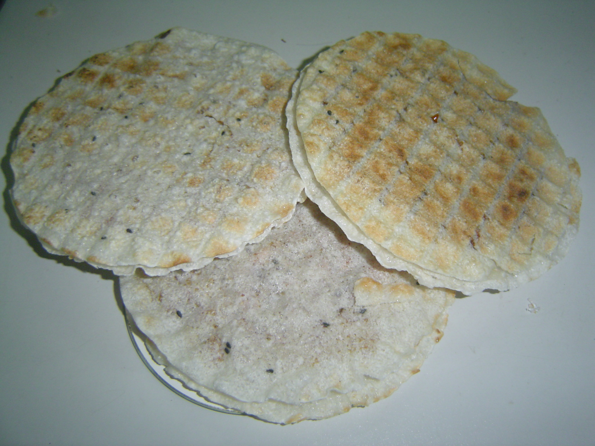 rice-paper peanut brittle